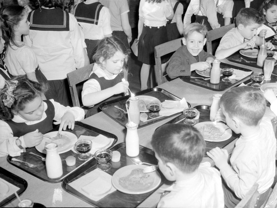 Student, seated in the cafeteria of the "Montreal High School," eat their lunch laid on trays.